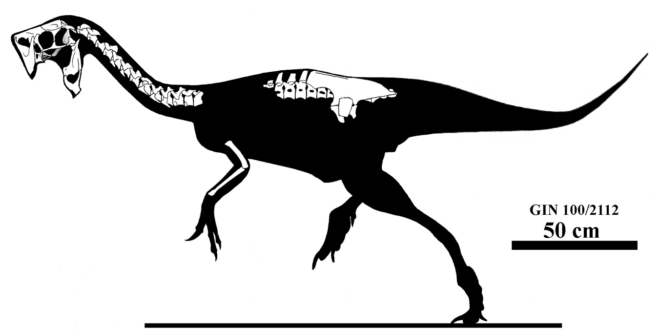 Skeletal reconstruction of the Nemegtomaia barsboldi holotype